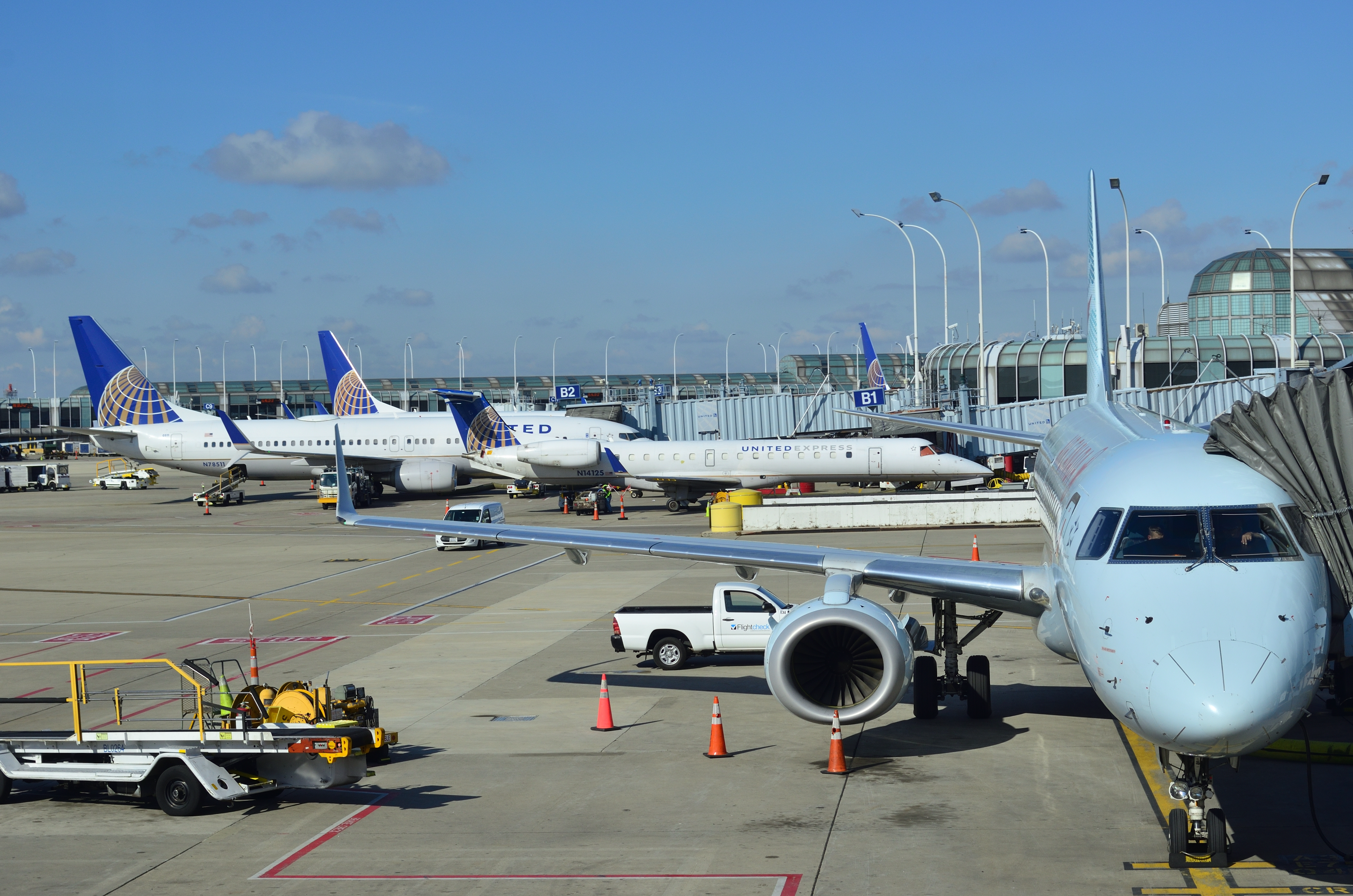 Airplanes at the O'Hare International Airport